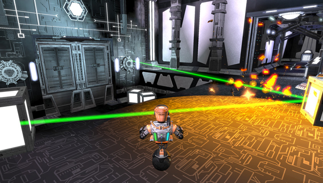 RoboBlitz screenshot. Released in 2006, the game was developed by Naked Sky Entertainment.